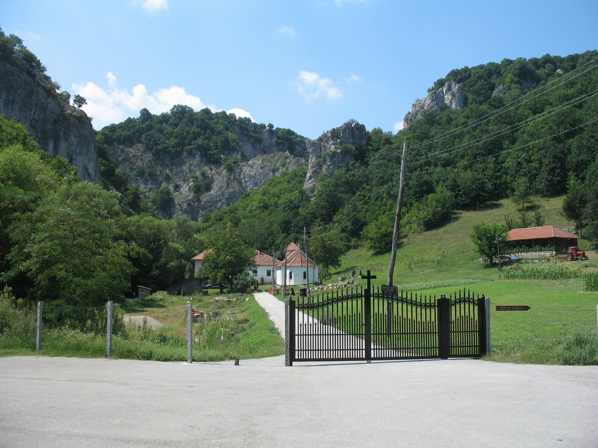 Vratna monastery from XIV century, near Vratna river on Veliki Greben mountain, Serbia.